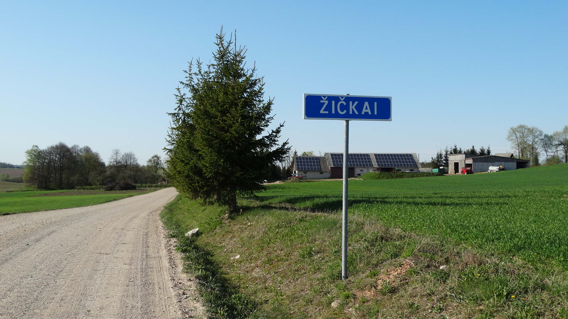 Žičkai, Širvintos District, Lithuania